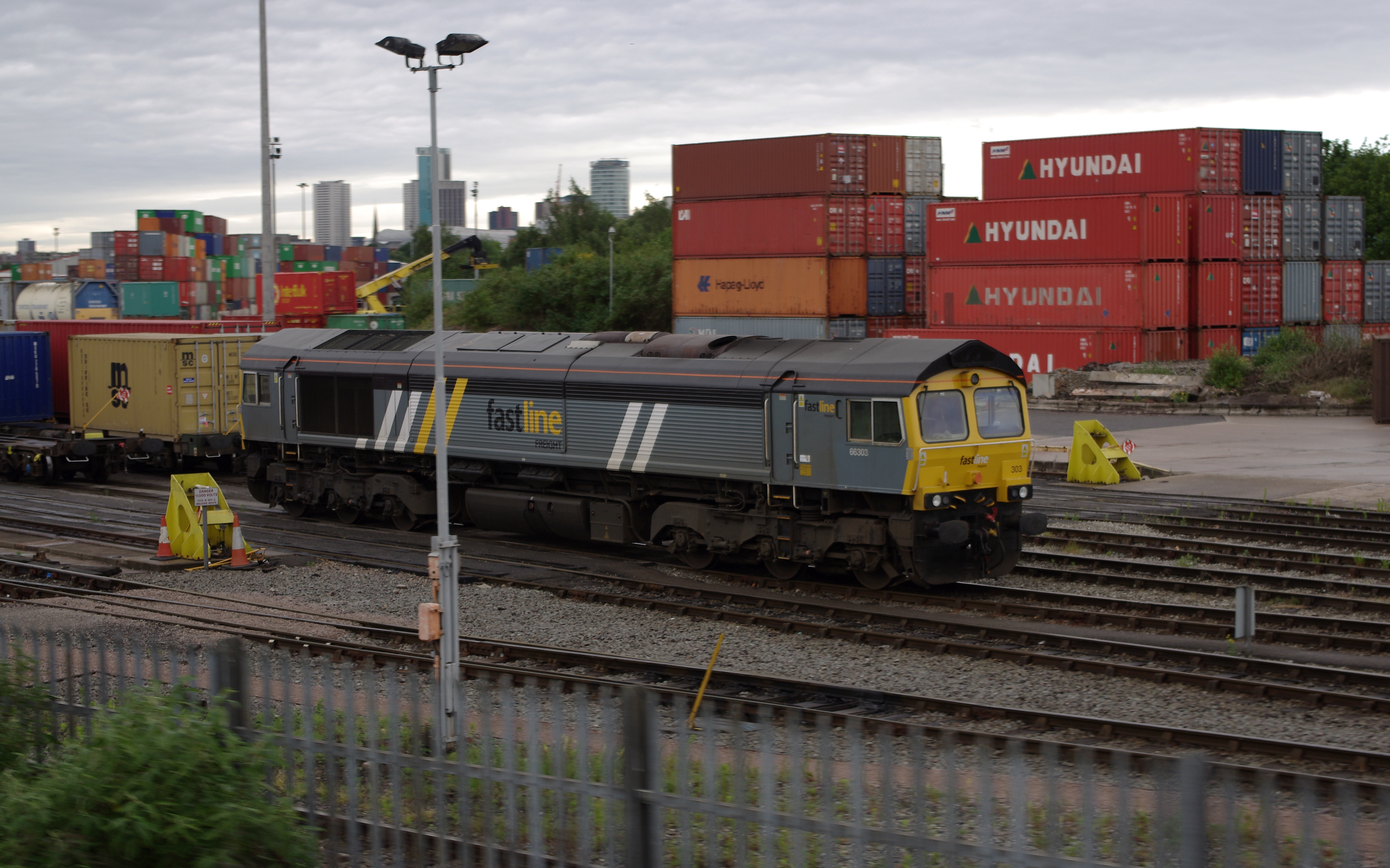 Fastline Freight locomotive 66303 stands in the Lawley Street Freightliner Terminal.